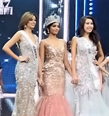 Final moments of Miss Supranational 2017 beauty contest. Left to right: Tica Martinez of Colombia, who won first runner-up, Srinidhi Shetty of India, reigning Miss Supranational 2016, winner Jenny Kim of South Korea who won Miss Supranational 2017. Filmed by Misha Grimes.